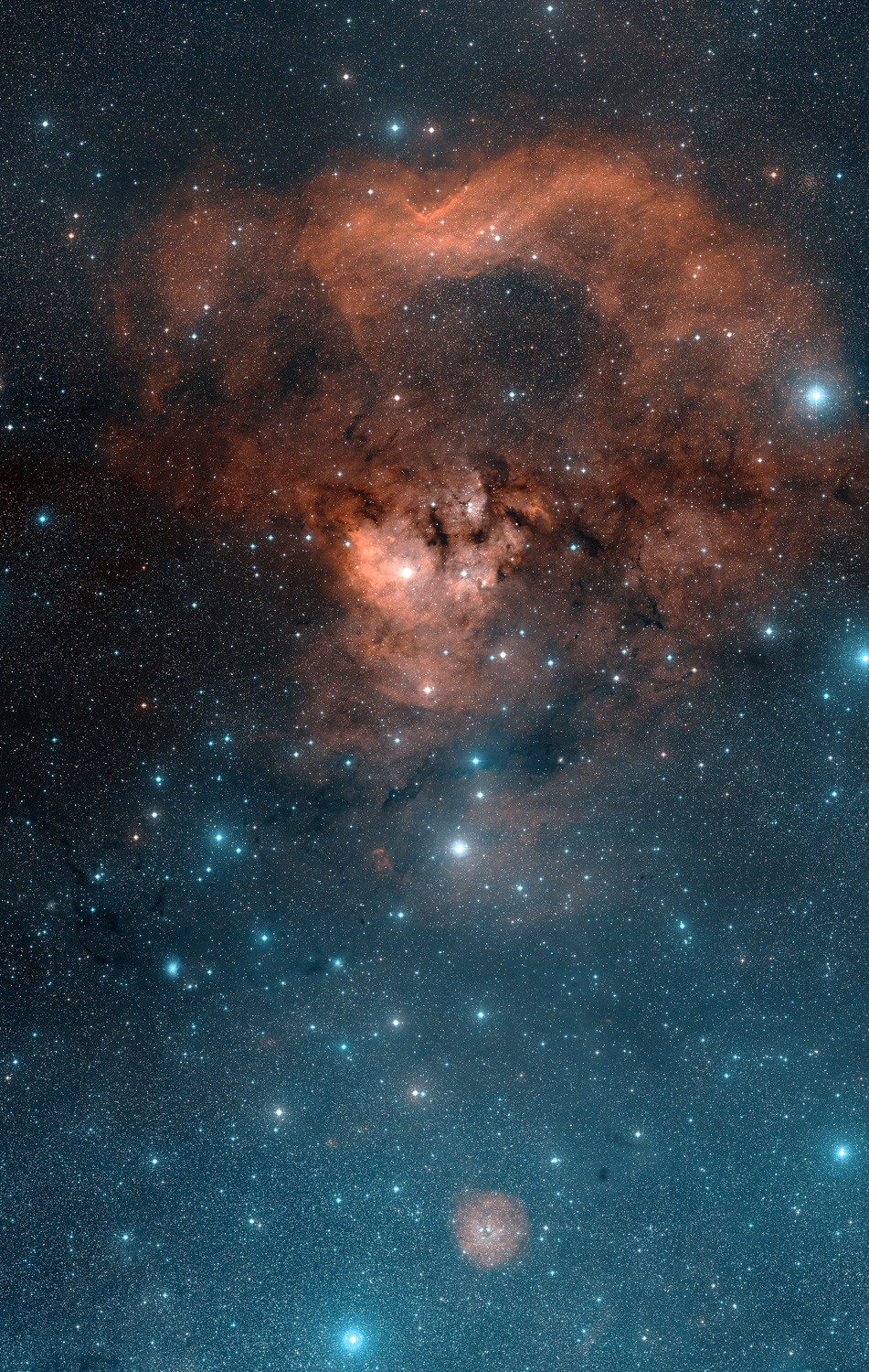 Cederblad 214 and NGC 7822 Nebulae